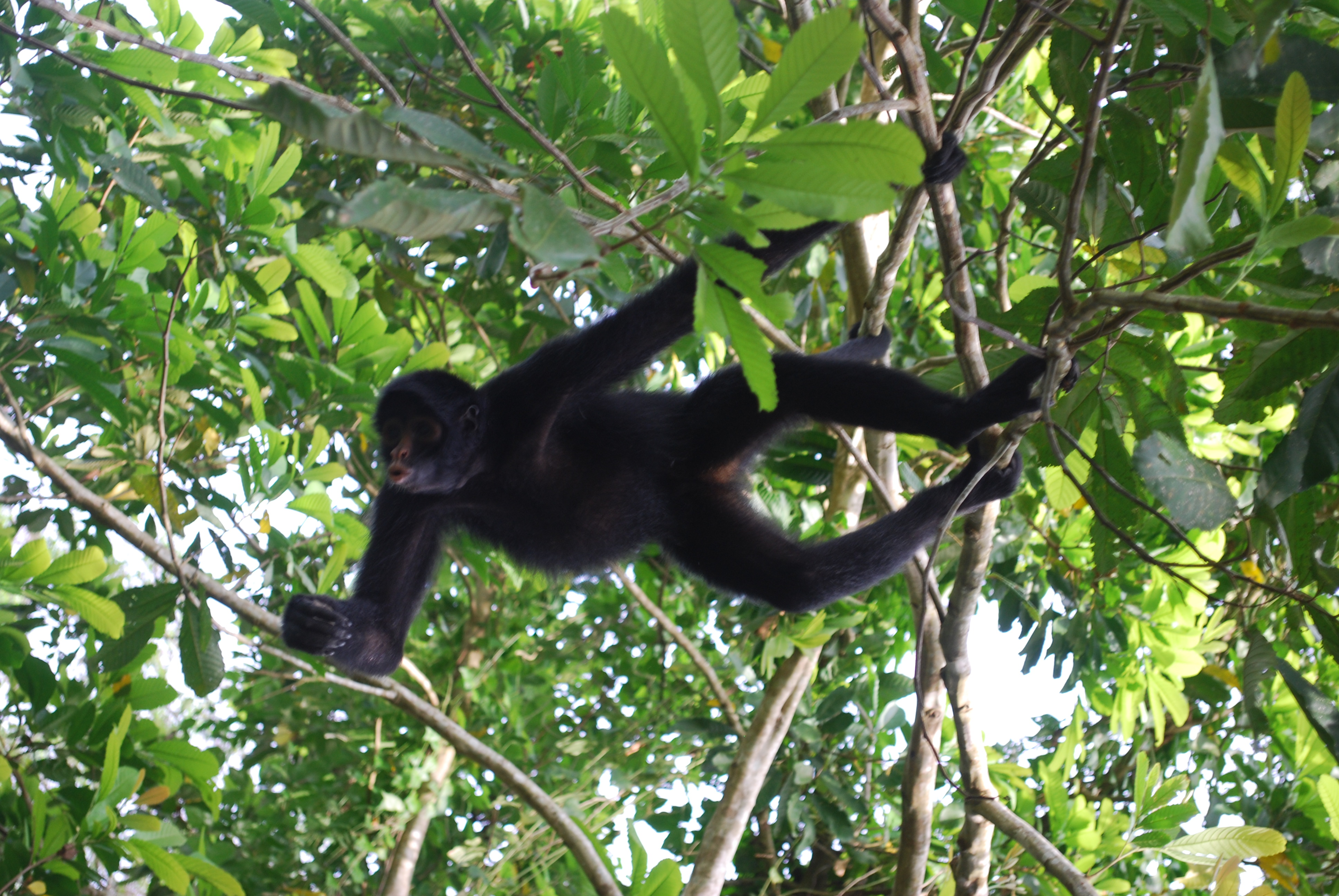 Peruvian Spider Monkey (Ateles chamek), Parque La Isla De Los Monos, near Puerto Maldonado, Peru